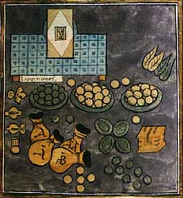 Emblem of the comes largitionum, according to Notitia dignitatum